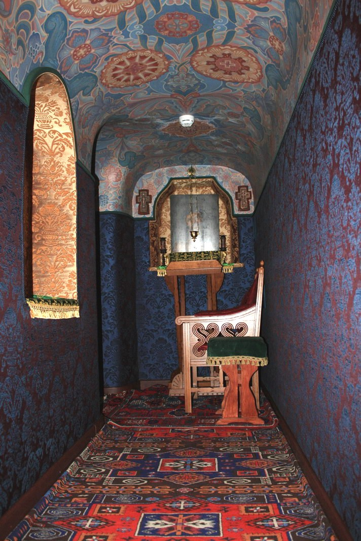 Feodorovsky Cathedral in Tsarskoye Selo. The chapel of empress Alexandra Feodorovna